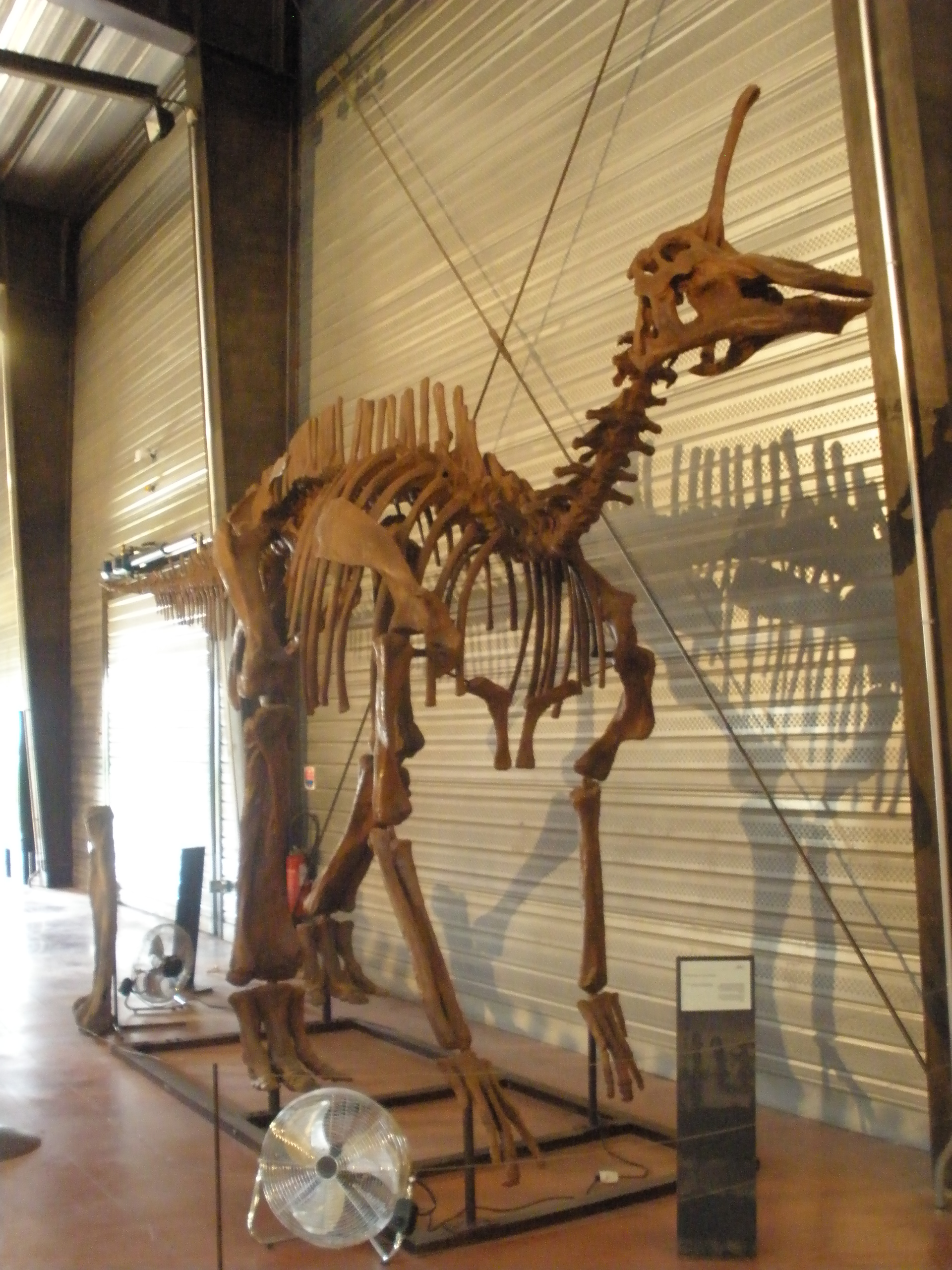 fossil of Tsintaosaurus spinorhinus, an extinct hadrosaur